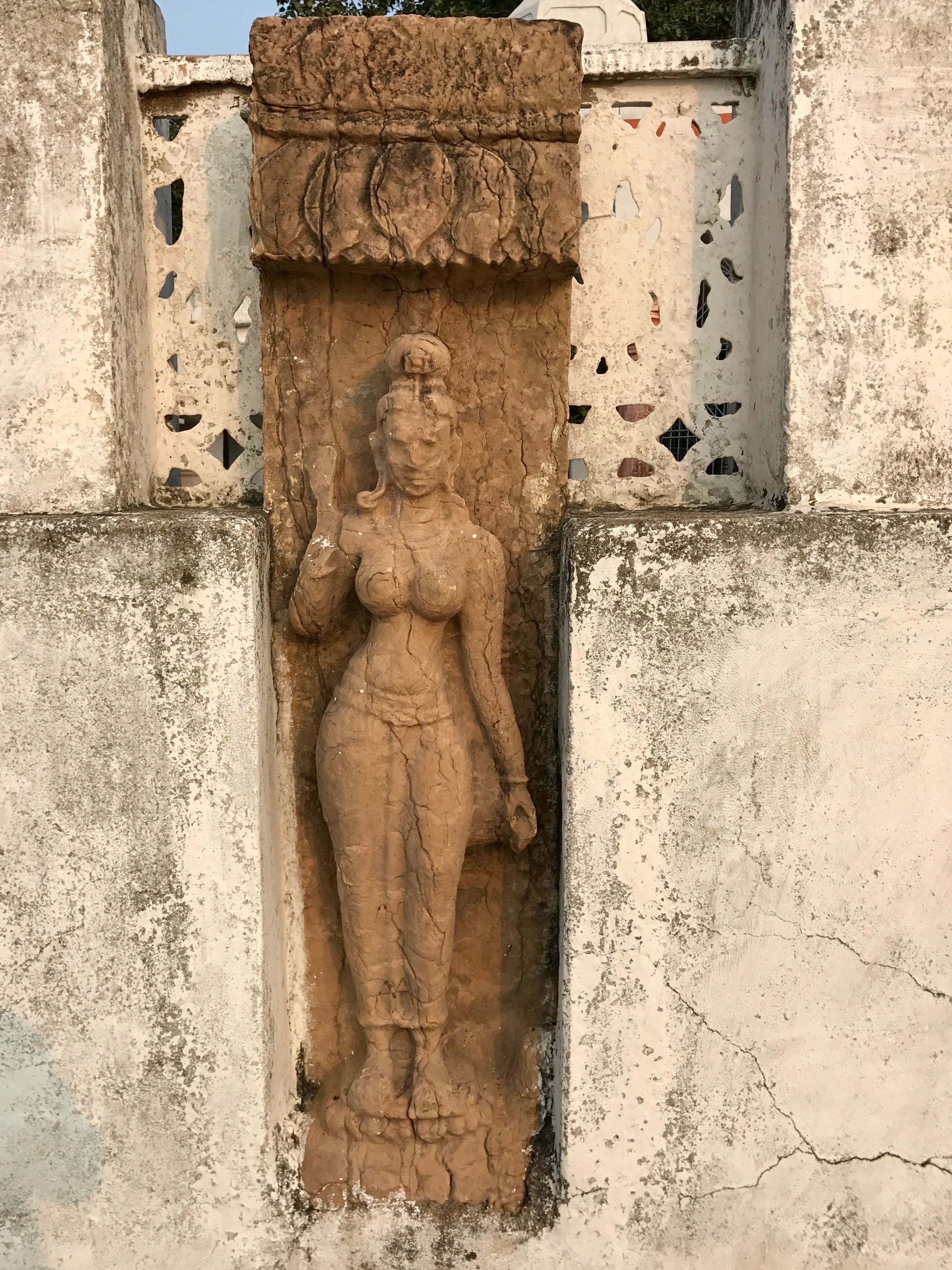 Sirpur, also referred in medieval era texts as Shripur (city of wealth), is a town on the banks of Mahanadi in Chhattisgarh. The site became archaeologically significant after a visit and report on a Laxman (Lakshmana) temple in 1872 by Alexander Cunningham, a colonial British India official. Sirpur is mentioned in the memoirs of the Chinese traveler Hieun Tsang as a location of monasteries and temples. The site has been significant for its temple ruins of Rama and Lakshmana of the Ramayana fame. The site excavations after 1960, particularly after 2003, have yielded 22 Shiva temples, 5 Vishnu temples, 10 Buddha Viharas, 3 Jain Viharas, a 6th/7th century market and snana-kund (bath house). The site shows extensive syncretism, where Buddhist and Jain statues or motifs intermingle with Shiva, Vishnu and Devi temples. The region was conquered and plundered by the armies of Delhi Sultanate and later Deccan Sultanates. The town and temples were damaged in the wars and were abandoned. Dense vegetation grew over it and floods deposited silt. There is also evidence of possible earthquake damage. 20th and 21st century excavations have unearthed many monuments. The site is large and artwork stick out of farmlands and dirt roads in and near Sirpur.